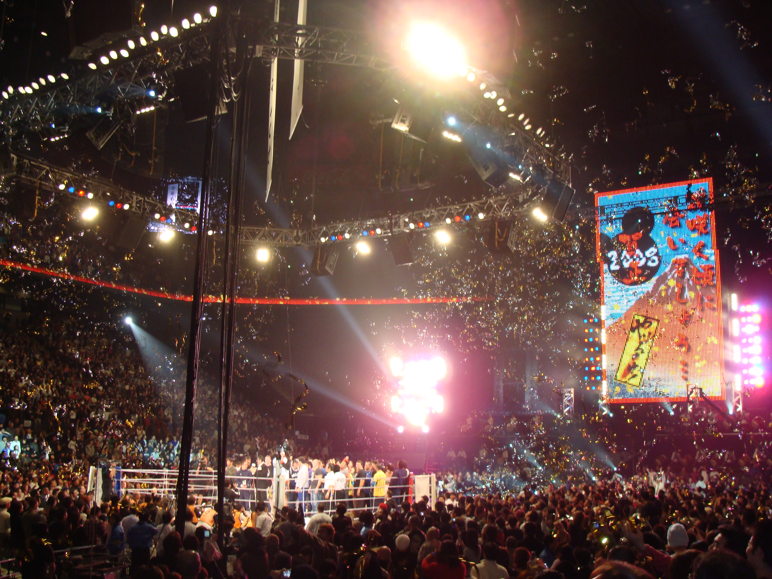 Taken on New Year's 2007 in Saitama, Japan